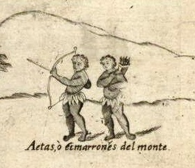 Illustration of Aetas. Detail from Carta Hydrographica y Chorographica de las Yslas Filipinas (1734). Aeta people are said to have been very skilled using bow and arrow. Here, they are described as "wild men of the mountain".